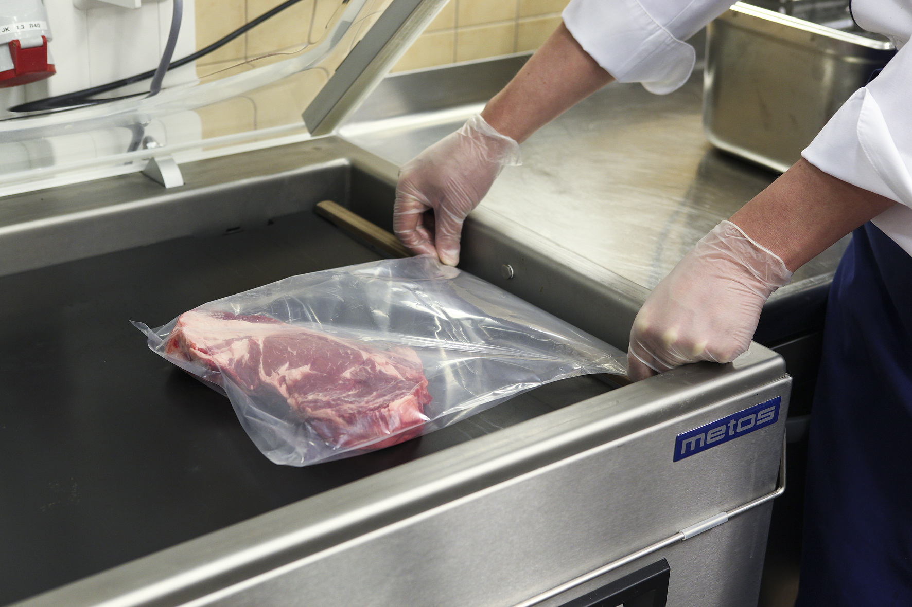 Vacuum machine / packing / sous vide / chuck roll